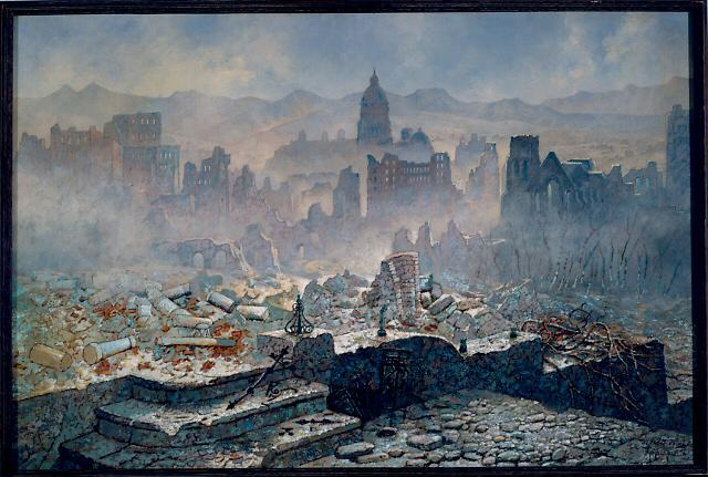 Edwin Deakin, Despair, 1906 (after the San Francisco earthquake), Oakland Museum of California